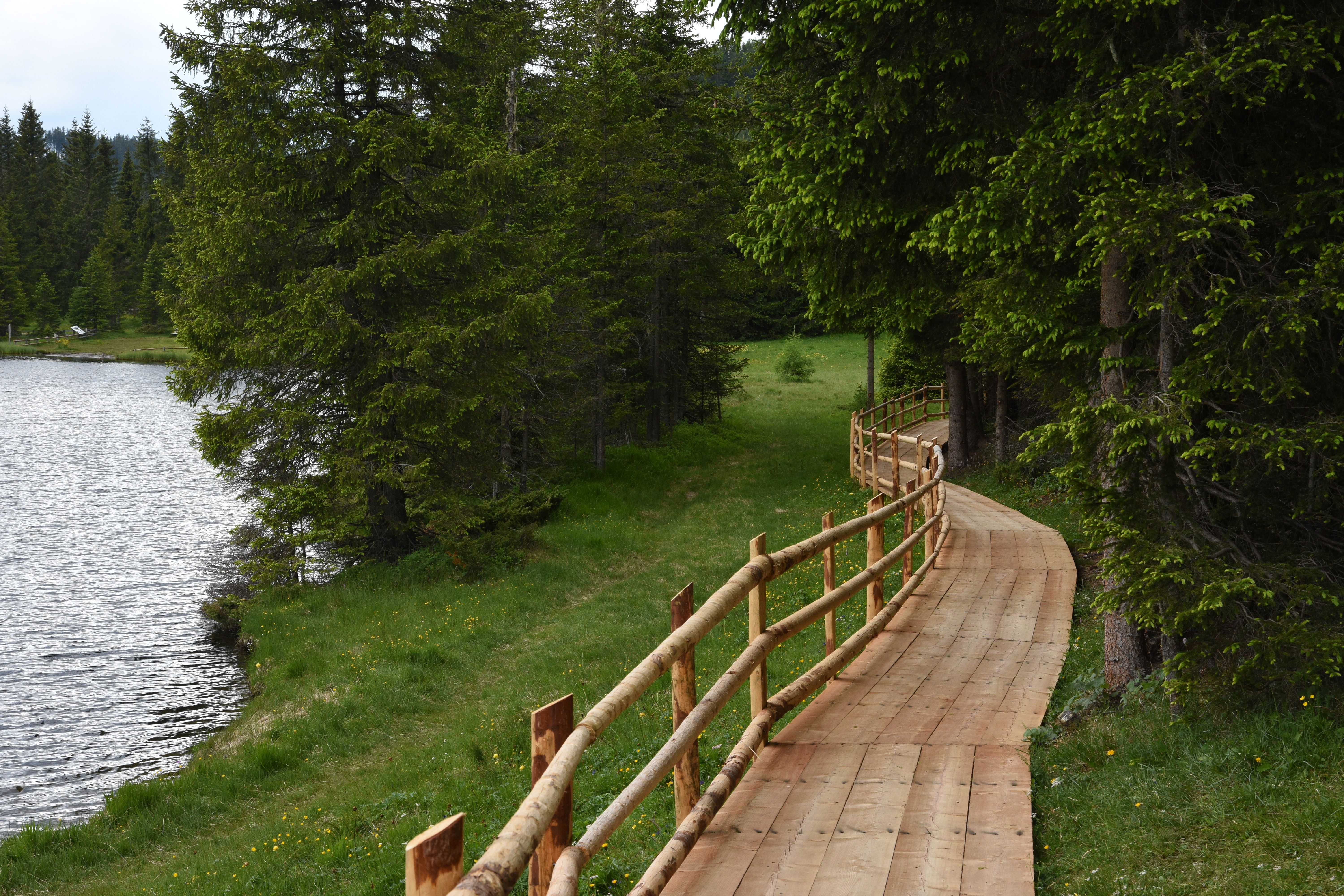 Lake Prebersee